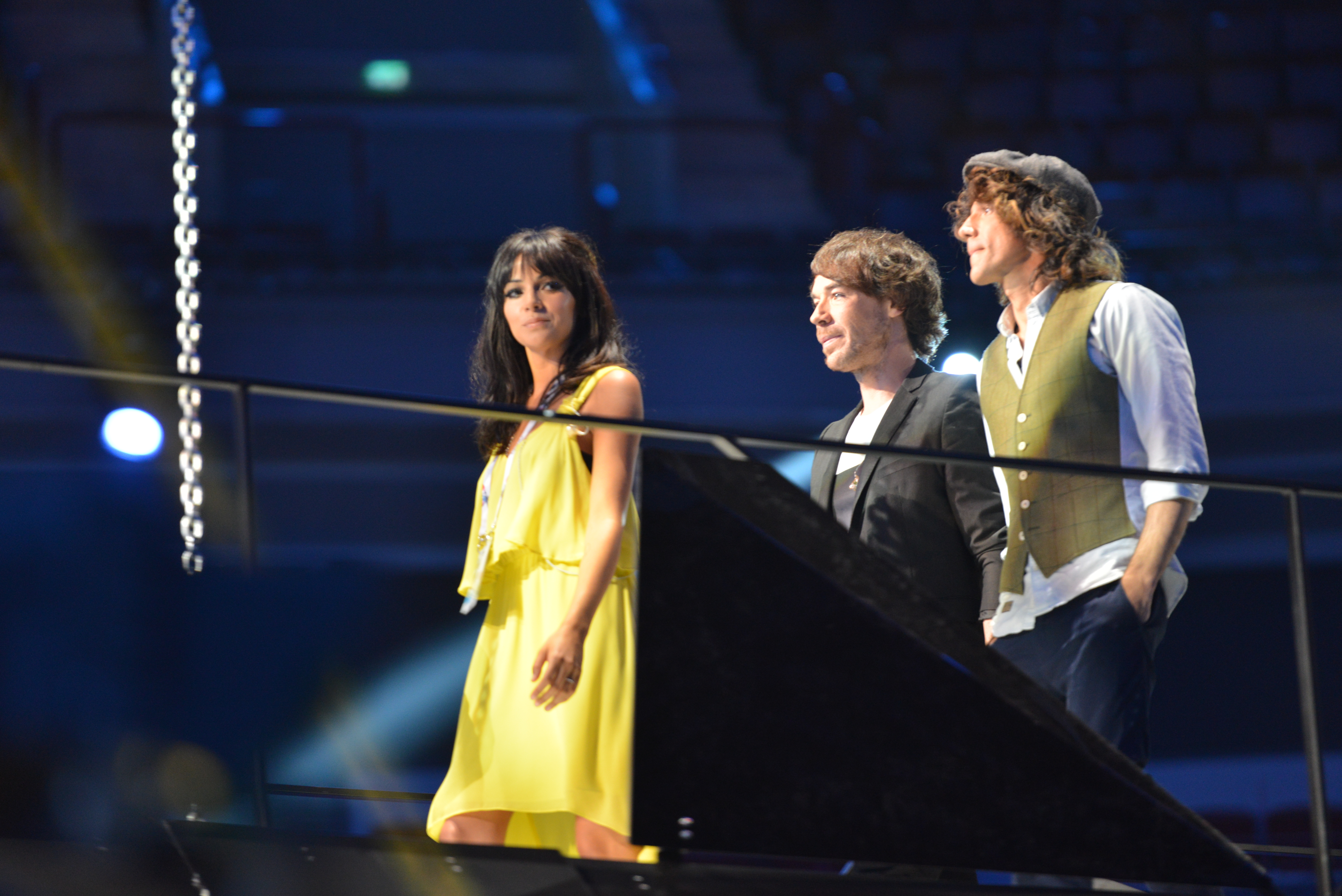 El Sueño de Morfeo entering the Malmö Arena in the opening act in the first dress rehearsal for the Eurovision Song Contest 2013.